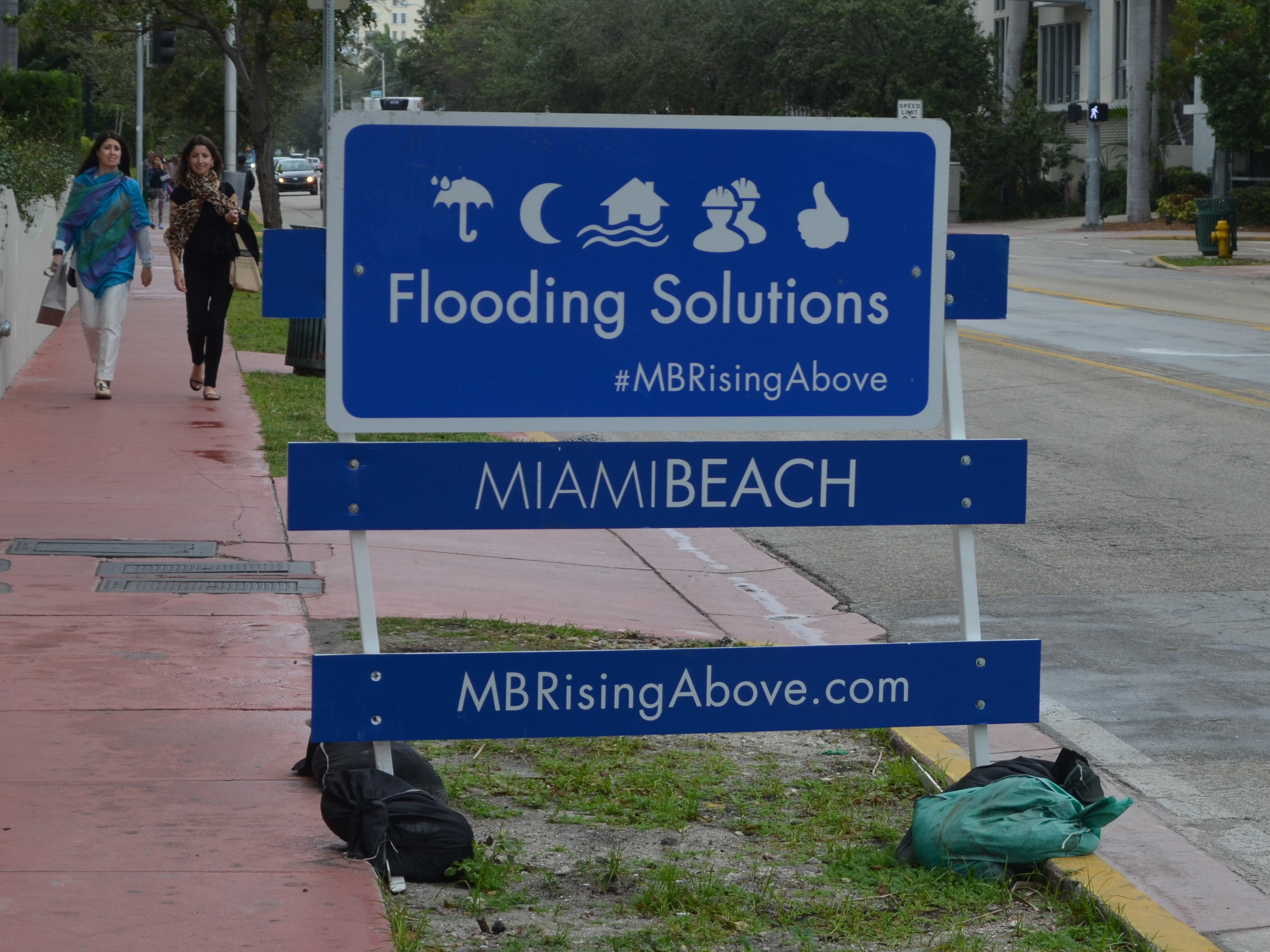 Infrastructure to mitigate tidal flooding.